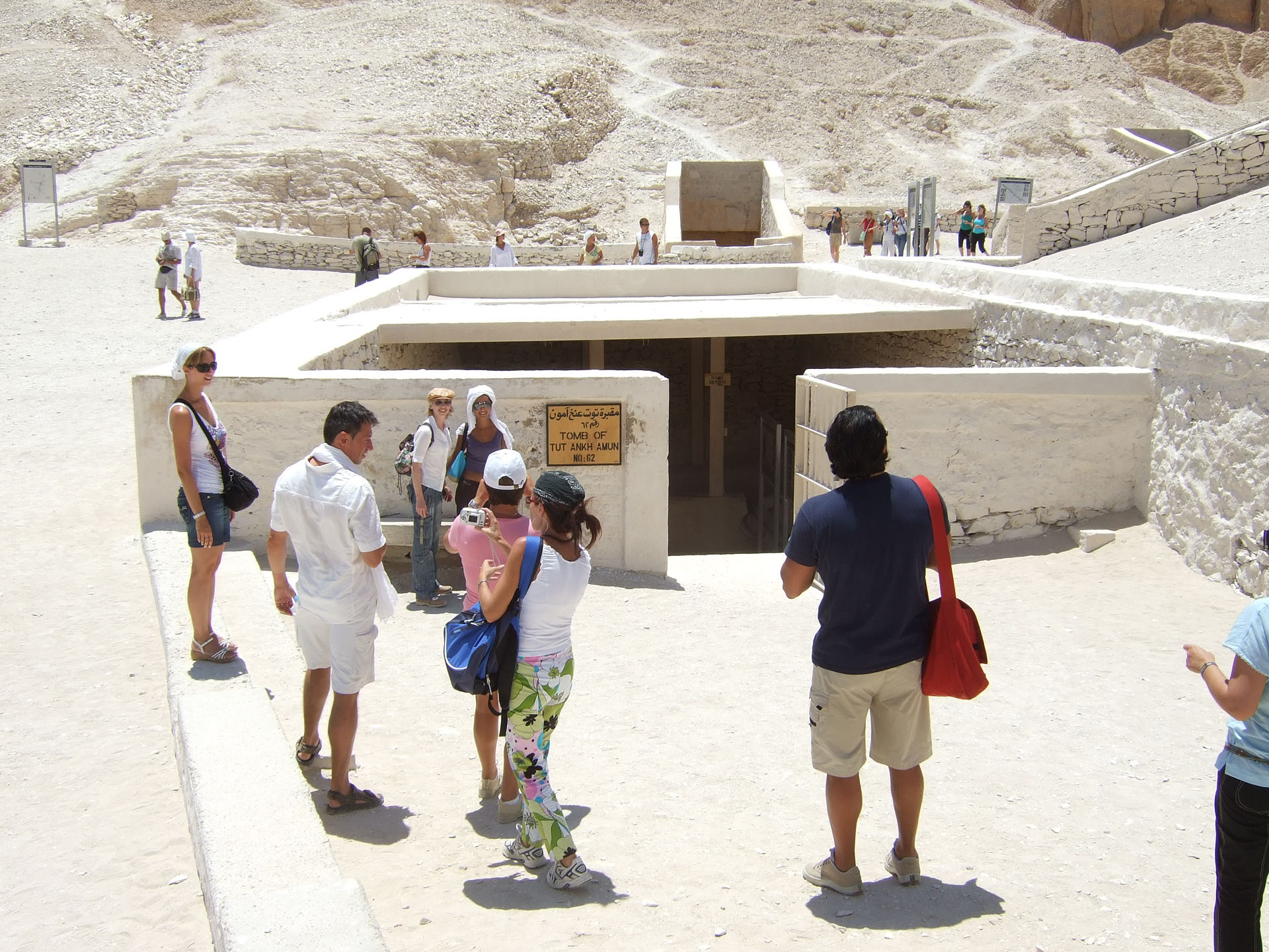 Tomb of Tutankhamun in the Valley of the Kings at Luxor